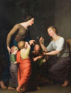 Painting "The gift" (The gift) Louis Adrien François Moons. This work currently hangs in Kasteel Bosdam - Beveren-Waas